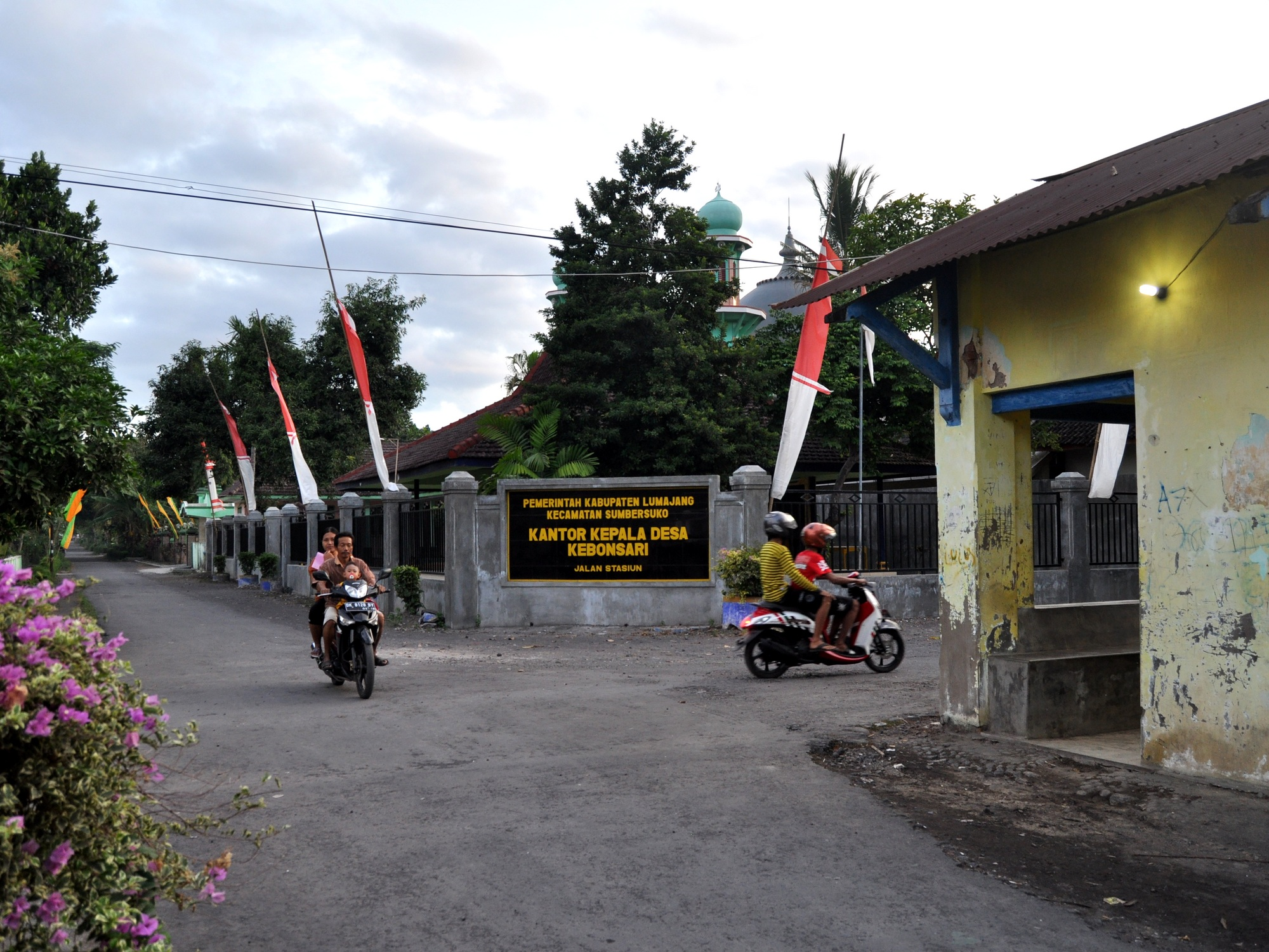 Office of Kebonsari Village in Sumbersuko, Lumajang, East Java, Indonesia.